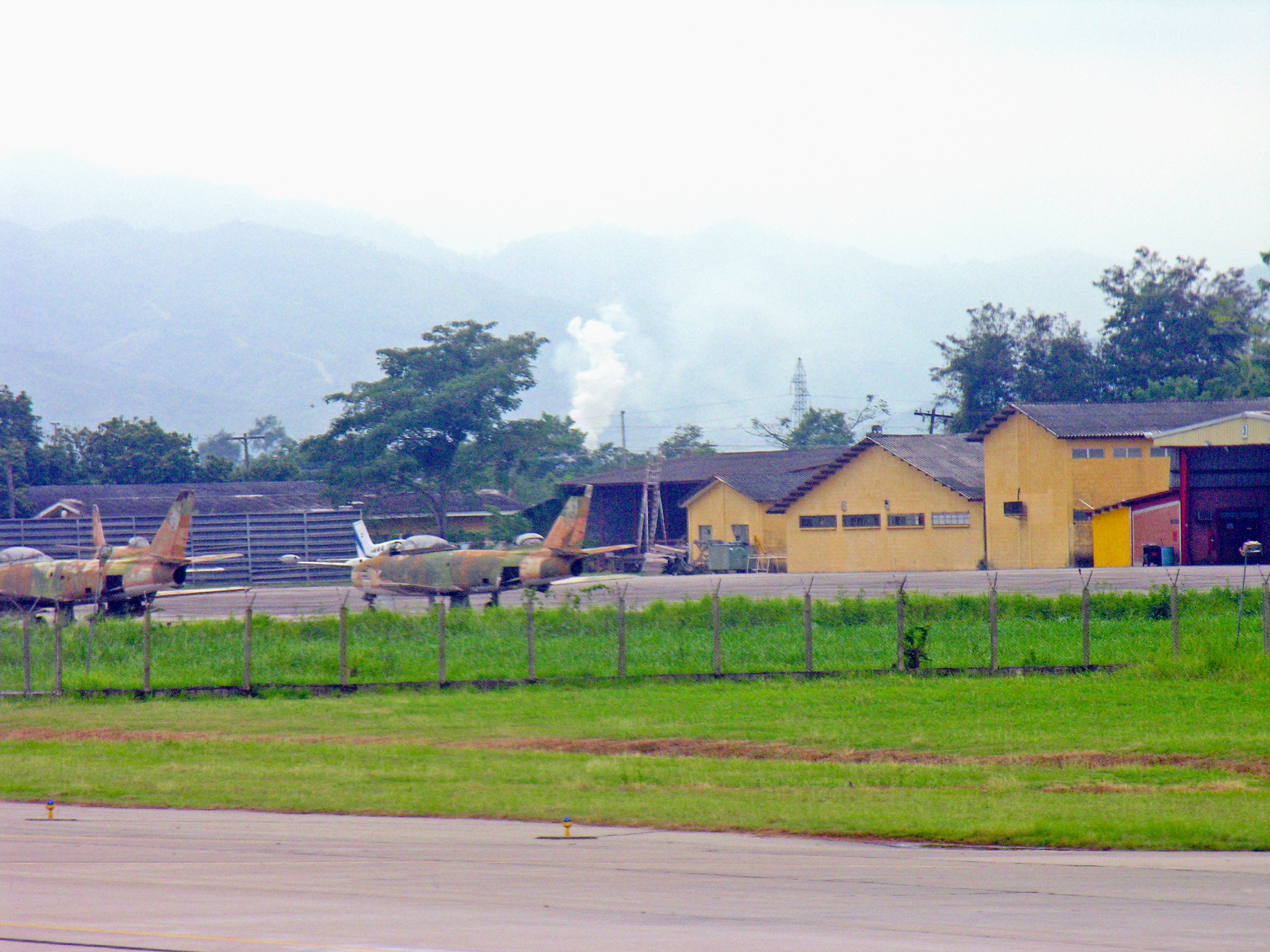 At San Pedro Sula Airport, Canadair CL-13 Sabres retired from the honduran Air Force.